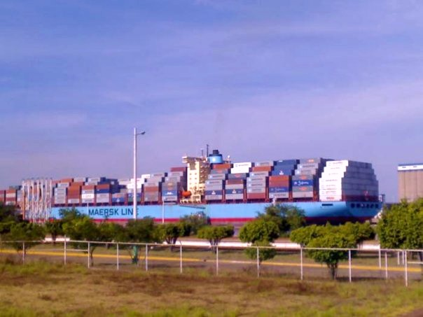 Contenedores arivando al puerto.